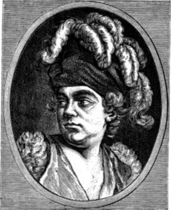 The French actor Lekain in the Role of Titus